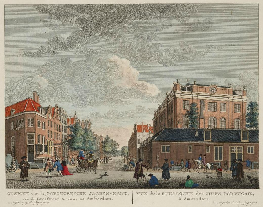 View of the Portuguese-Jewish Church, seen from Breestraat, Amsterdam. Ca. 1775; Jan Schouten.